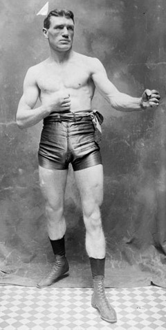 Portrait of Philadelphia Jack O'Brien, a boxer of Philadelphia. Posing in front of a dark backdrop in a stairwell hallway at the Chicago Daily News building in Chicago, Illinois.